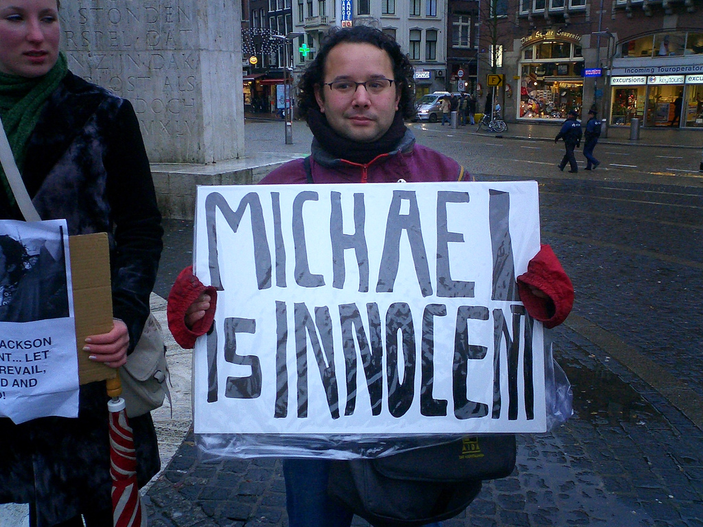 Fans protest Michael Jackson's innocence in the child molestation scandal in 2004